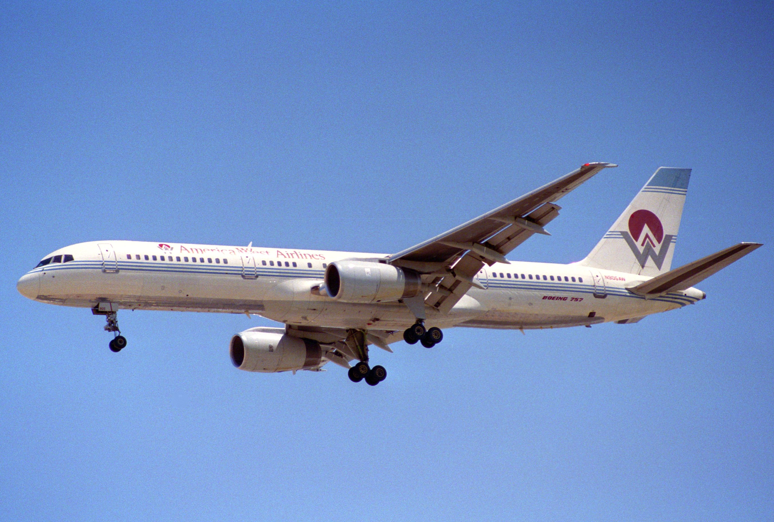 First flight: May 2, 1986...(c/n 23567/ 97) 19/05/1986 Republic Airlines N905AW 01/10/1986 Northwest Airlines N905AW 11/05/1987 America West Airlines N905AW 15/10/2006 US Airways N905AW